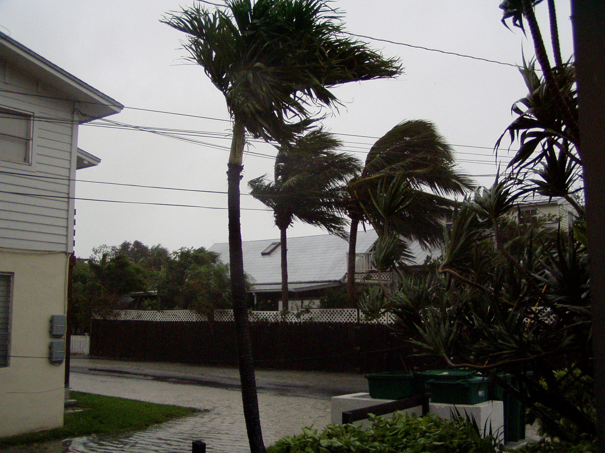 Hurricane Wilma in Key West